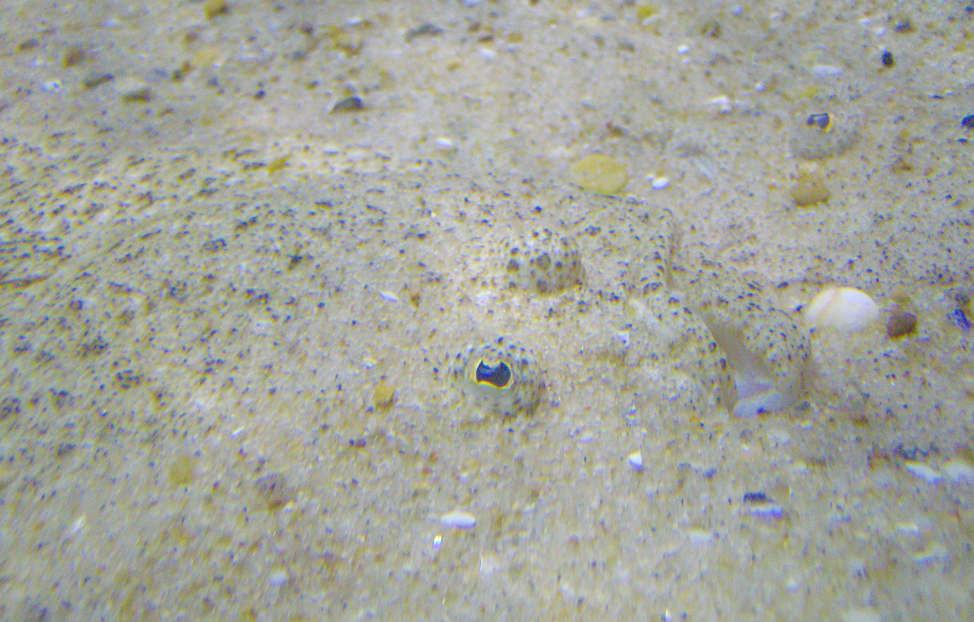 Breet / Britt / Butt / Turbot. Captive specimen, buried in sand on the bottom of the aquarium. Estação Litoral da Aguda, Arcozelo, Vila Nova de Gaia, Portugal.